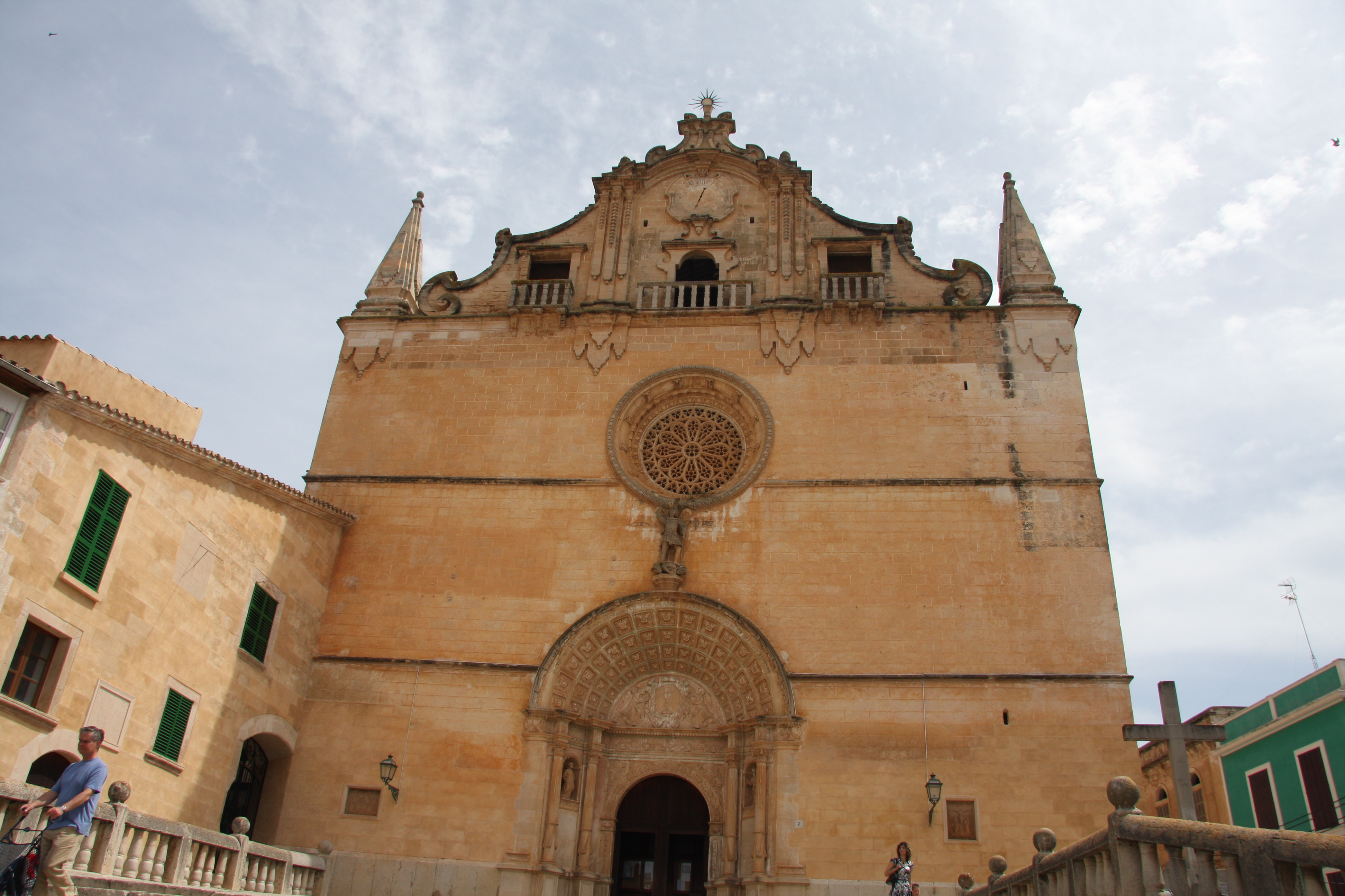 The Church Sant Miquel in Felanitx, Mallorca